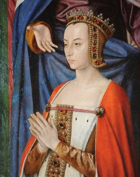 Work: Moulins Triptych, right panel: Portrait of Anne de Beaujeu with Daughter Suzanne and Patron Saint